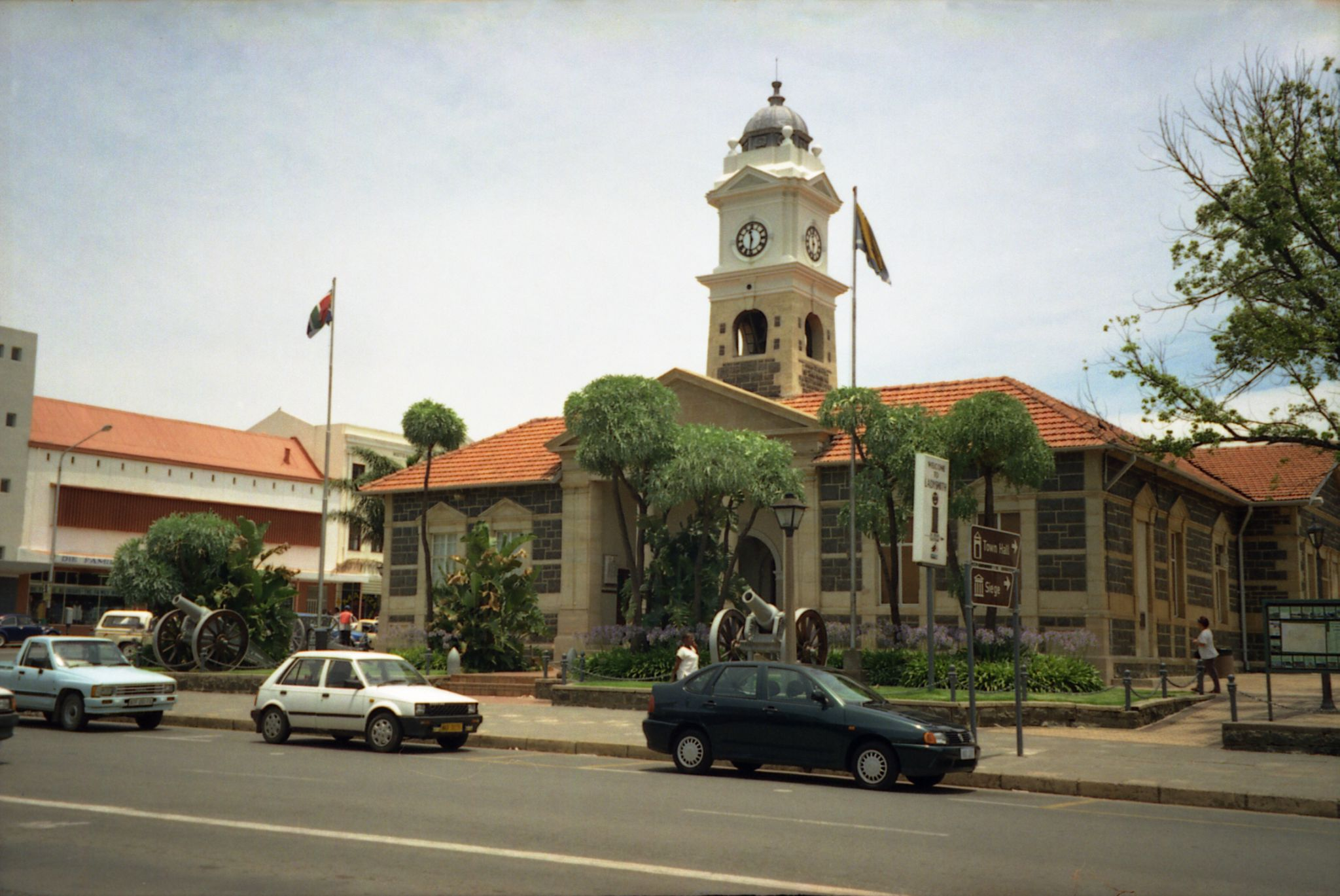 The Ladysmith town hall with Castor and Pollox, the two Second Boer War RML 6.3 inch Howitzers in front of it